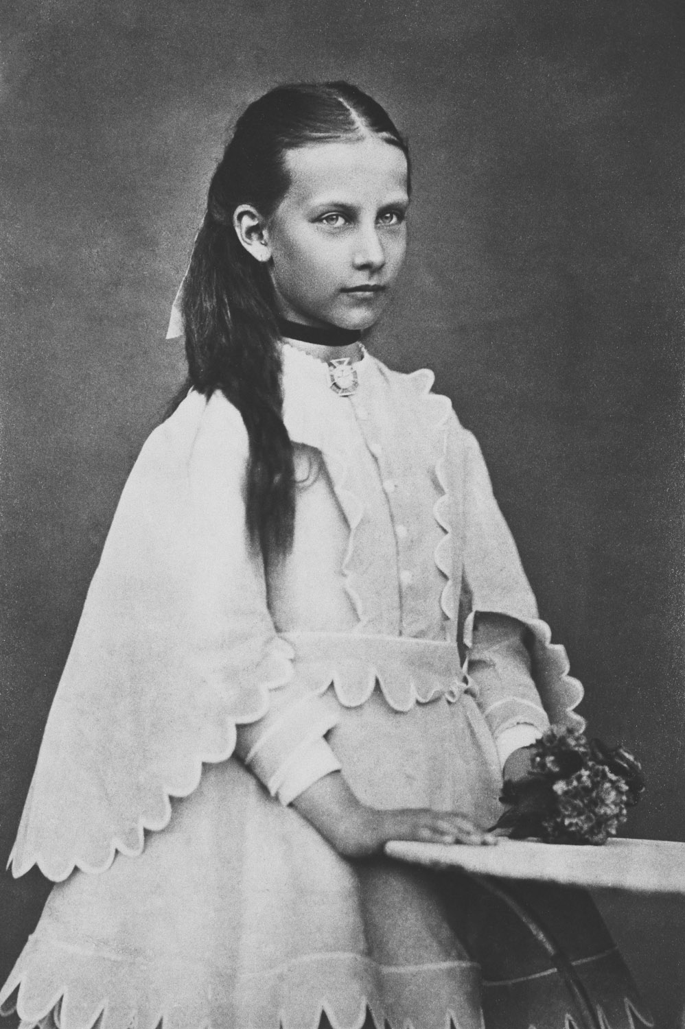 Prinzessin Charlotte von Preußen